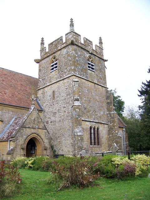 Tower, St Mary's Church, Yarlington 15th century perpendicular tower with crocket pinnacles and hunky punks (grotesques) on the corners.